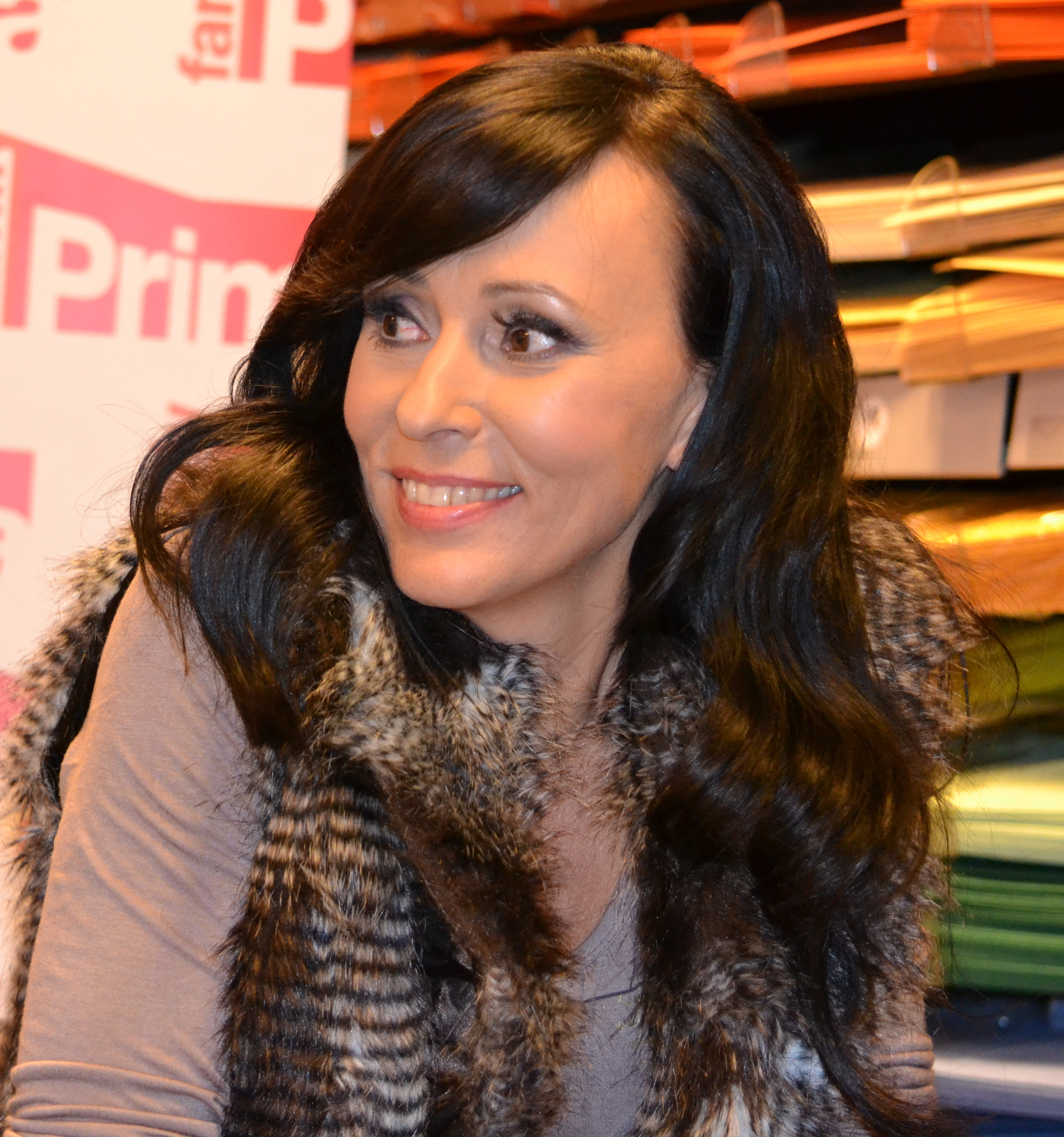 Heidi Janků, Czech vocalist